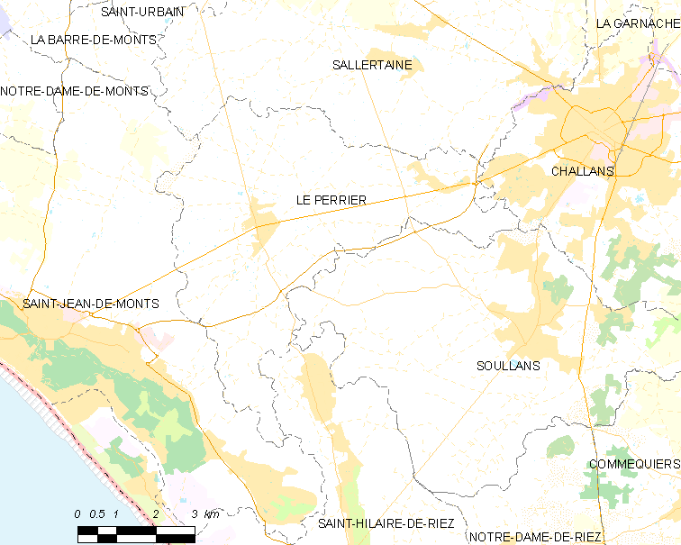 Map of French municipality Le Perrier